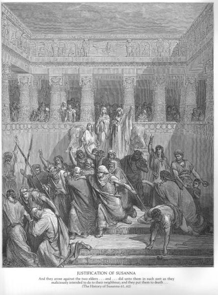 Vindication of Susanna